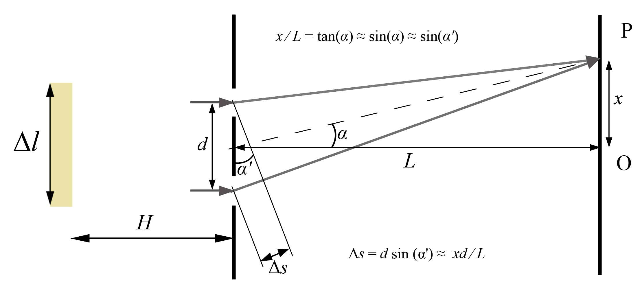 Young's interference experiment from a spatially extended source